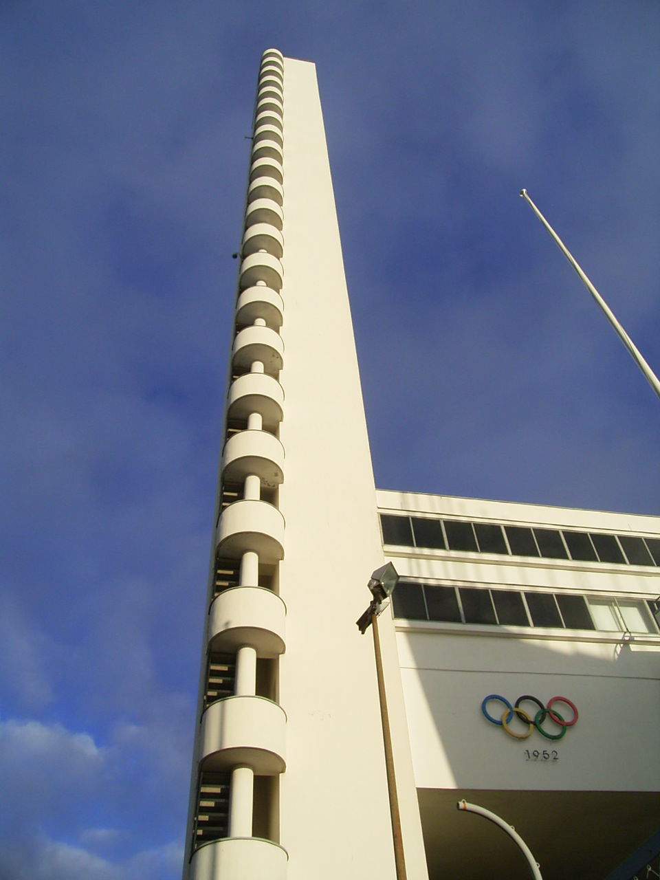 The tower at the Olympic Stadium in Helsinki, Finland